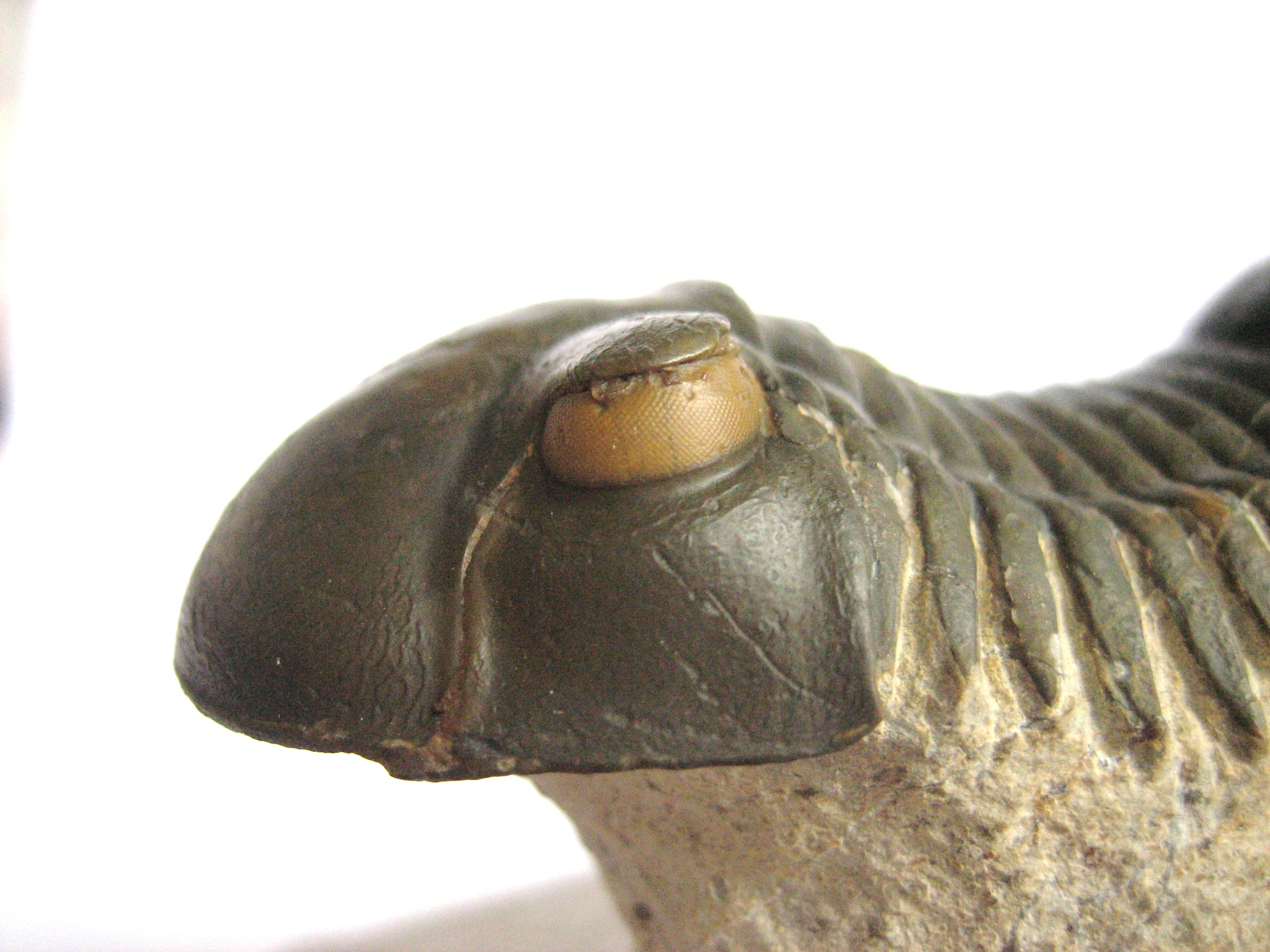 Holochroal Eye of Paralejurus sp. Paleozoic Lower Devonian (416 - 398 MA) Atlas Mountains, South of Morocco